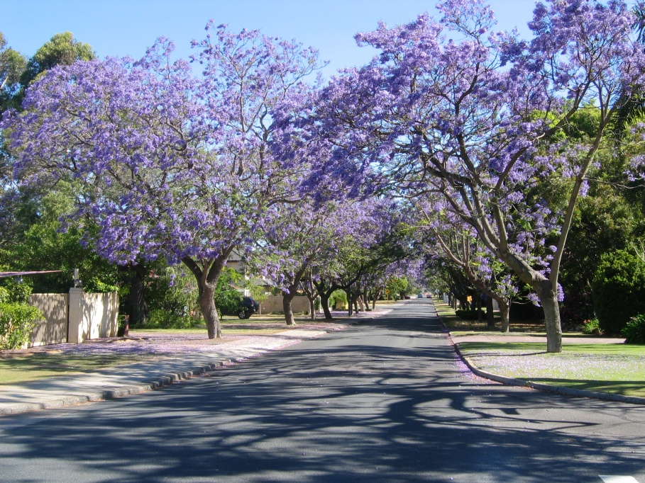 Looking along MacLeod Road in Applecross, Western Australia. The beautiful purple trees are jacarandas - a native of Brazil, but which grow particularly well in Perth.